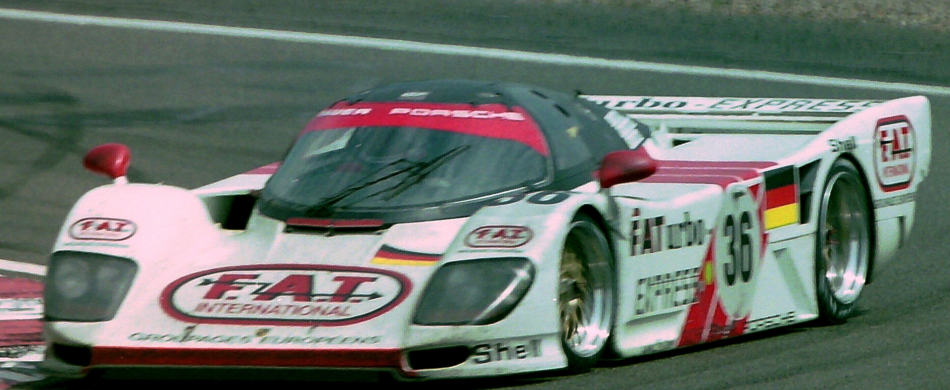 Dauer 962 LM - Mauro Baldi, Yannick Dalmas & Hurley Haywood at Mulsanne Corner at the 1994 Le Mans